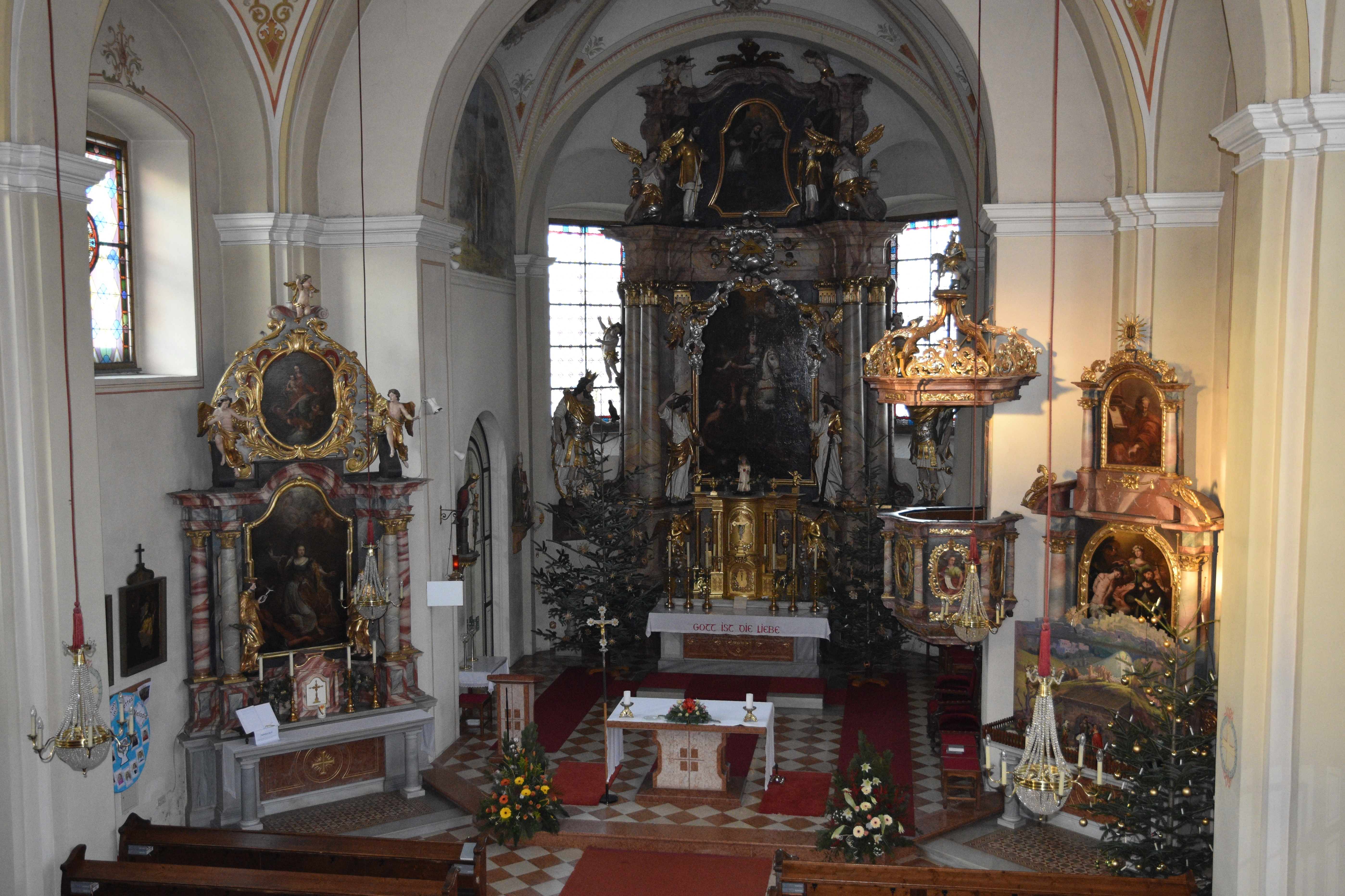 Church Pfarrkirche hl. Martin, Sankt Martin im Sulmtal Interior